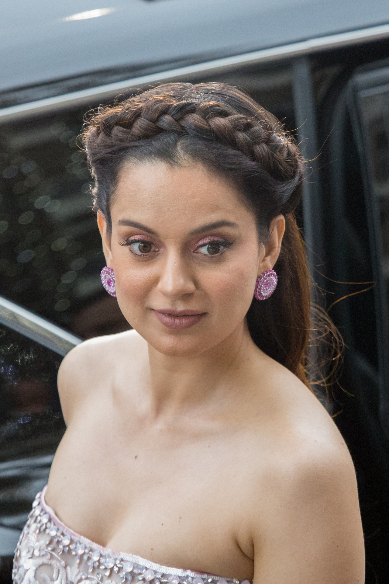 Kangana Ranaut at 2019 Cannes